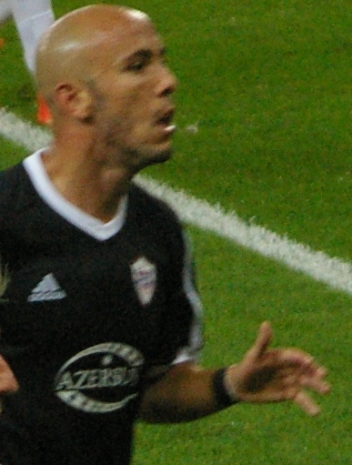 Richard Almeida with FK Karabakh in 2014